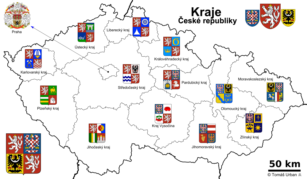 Heraldic map of regions of the Czech Republic.